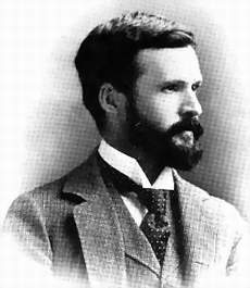 Photo of Missouri Senator Selden P. Spencer as a young man. Circa 1897.